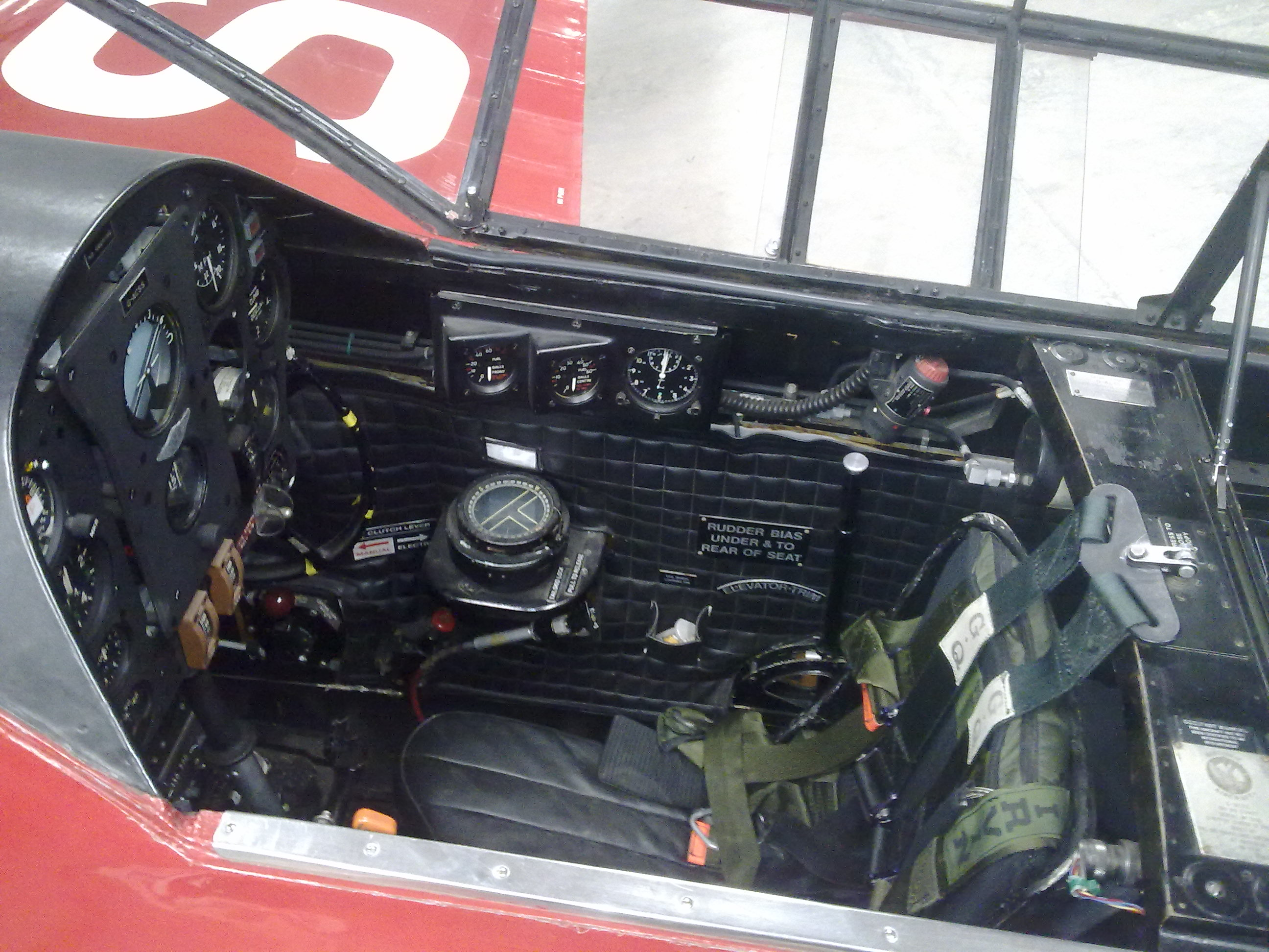 Cockpit of the DH.88 Comet Racer G-ACSS 'Grosvenor House' as it is in 2010 at the Shuttleworth Collection.